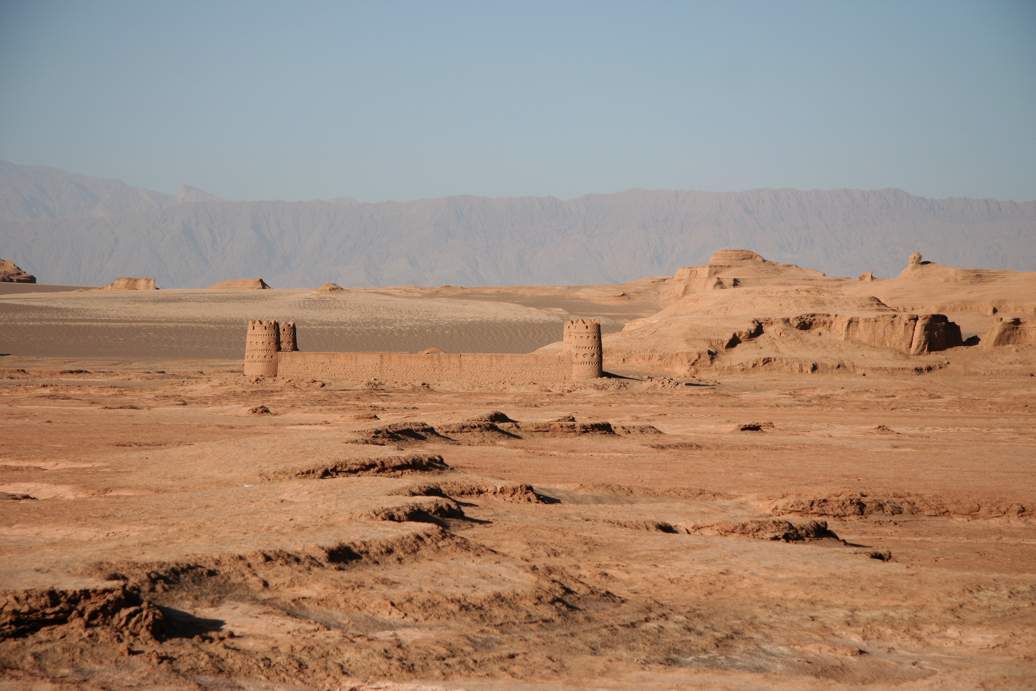 Caravanserai in the desert Dasht-e Lut in Kerman Province, Iran